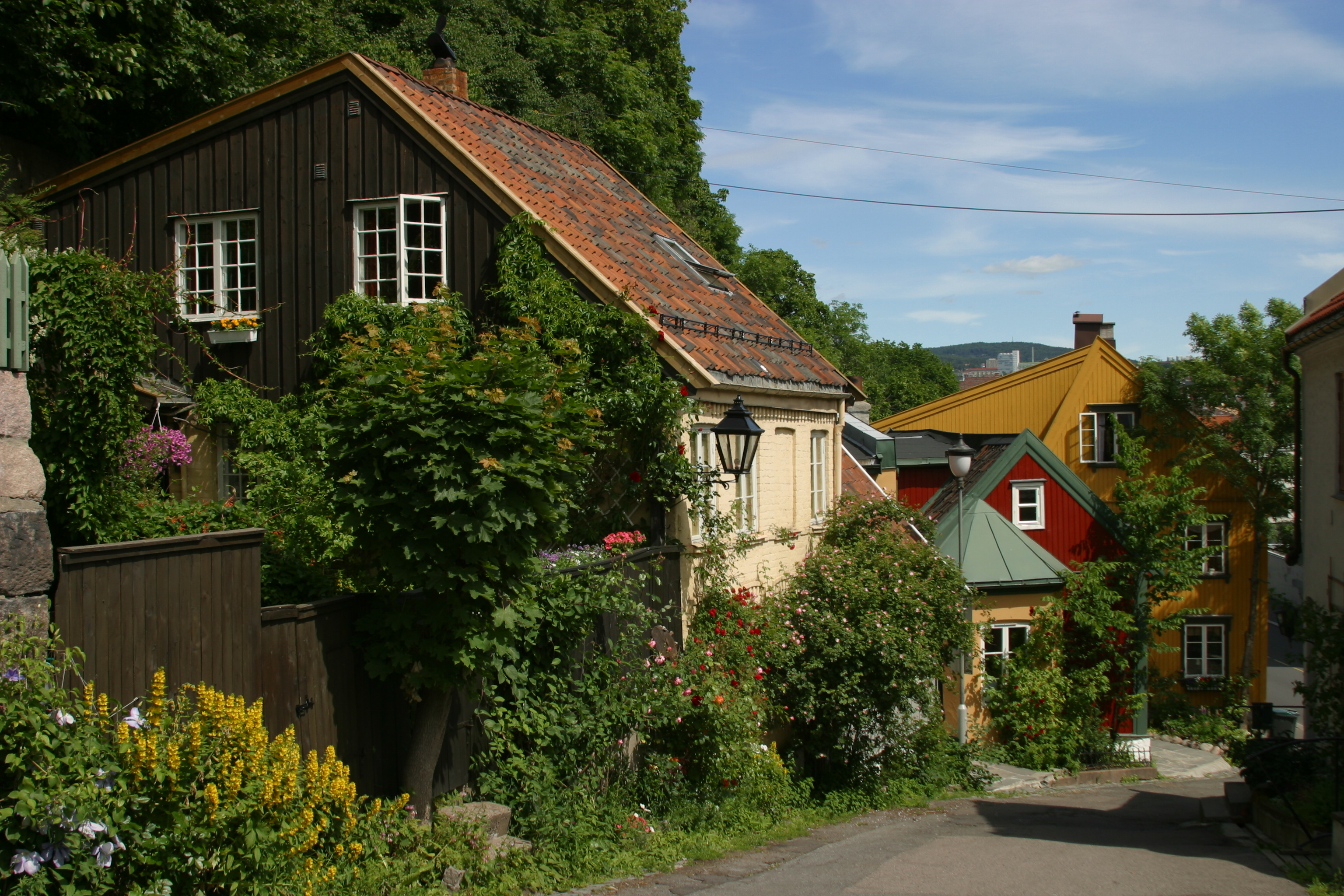 Picture of Damstredet (Oslo - Norway)